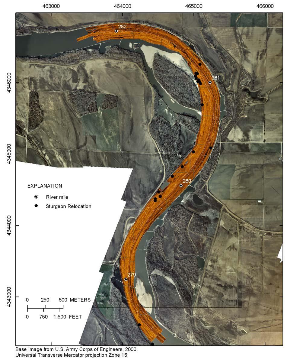 Sidescan Sonar imagery over base map of Cranberry Bend